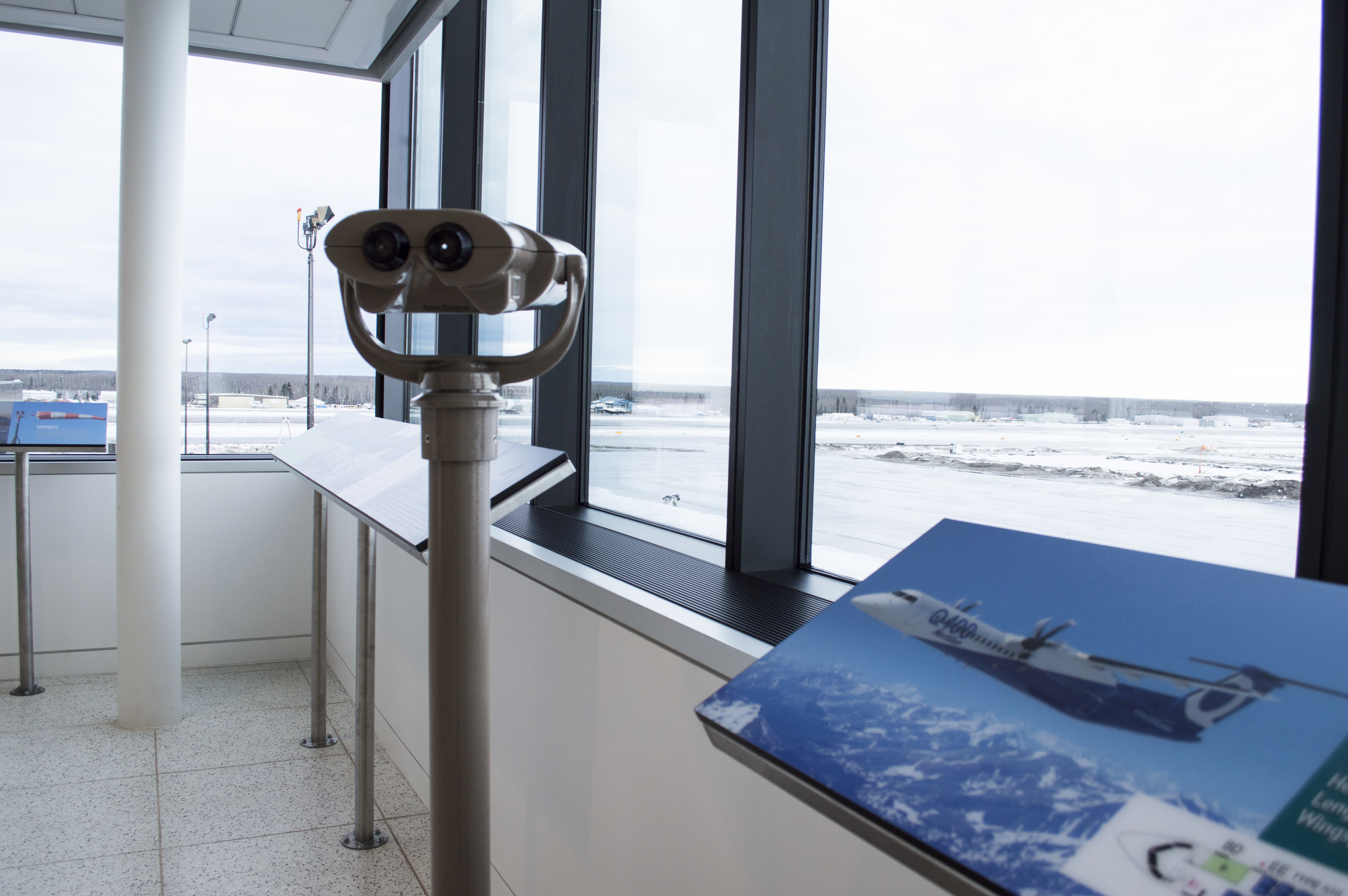 Fort McMurray Airport observation deck can be accessed by the public before security.